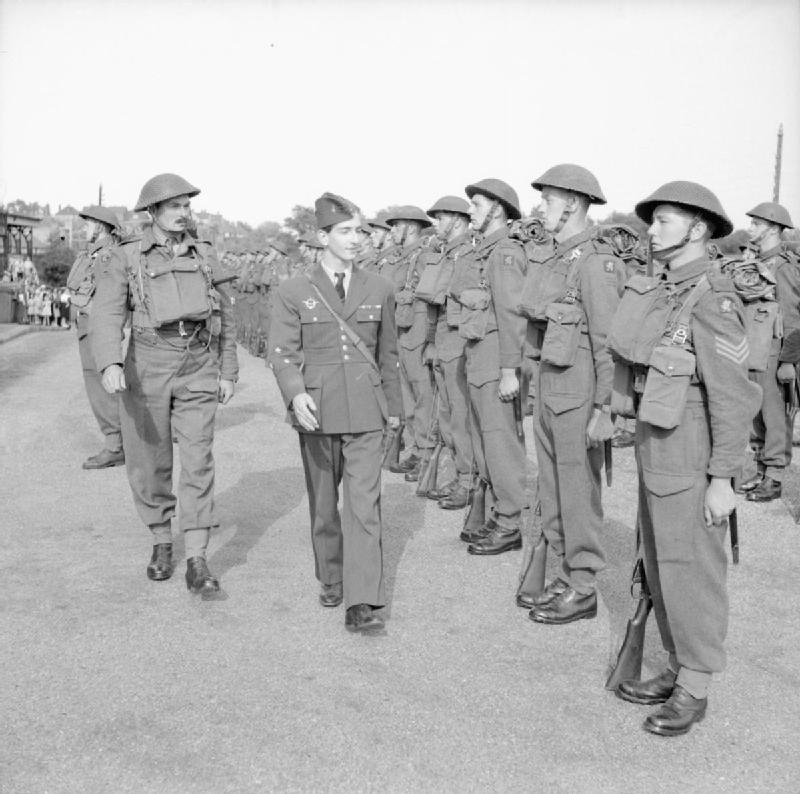 The Yugoslav Government in Exile during the Second World War King Peter II inspecting the Guard of Honour of a battalion of the Dorset Regiment in England.